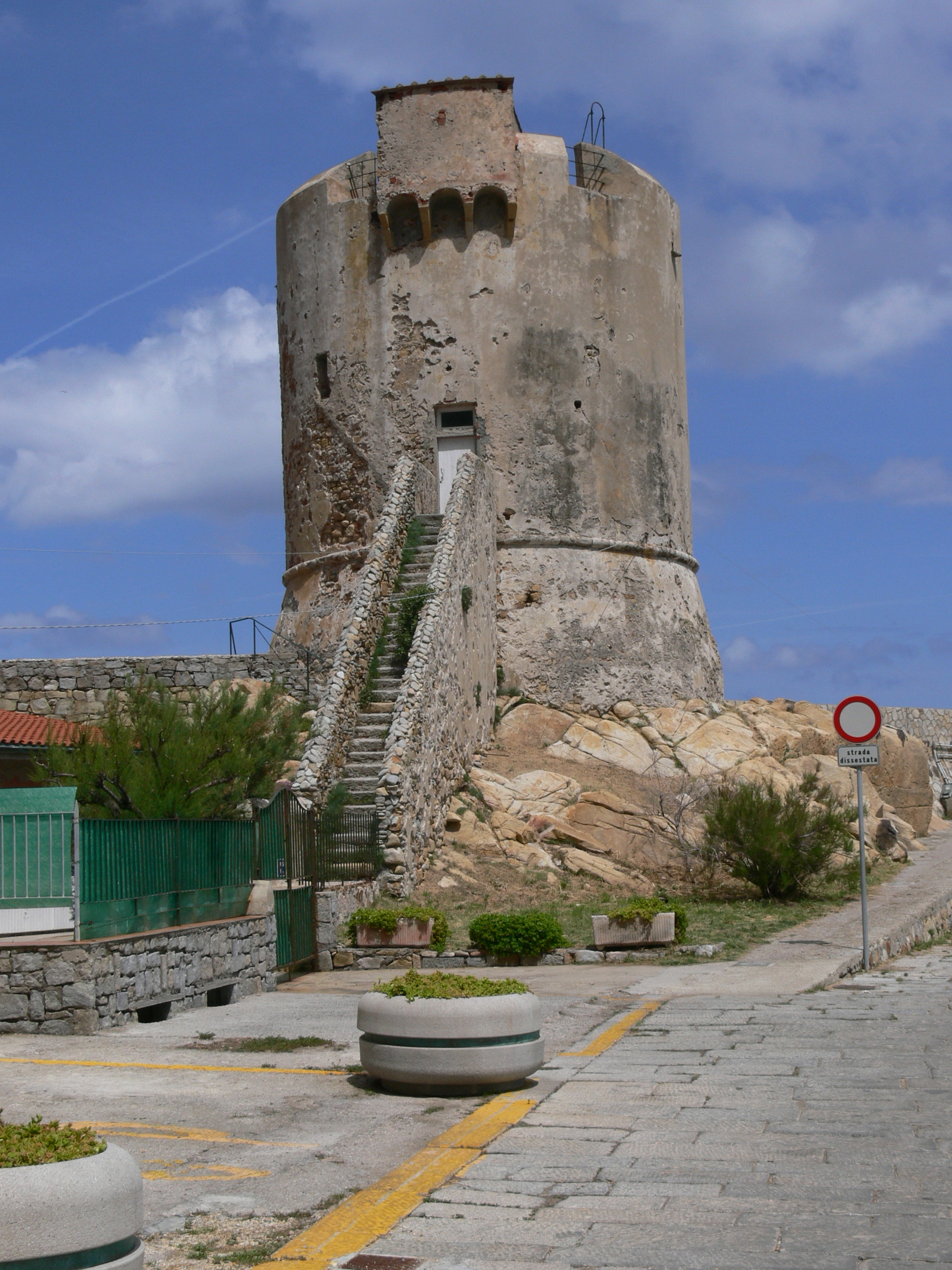 Marciana Marina ( Elba ). Saracene watch tower ( 12th century ) at the harbour.